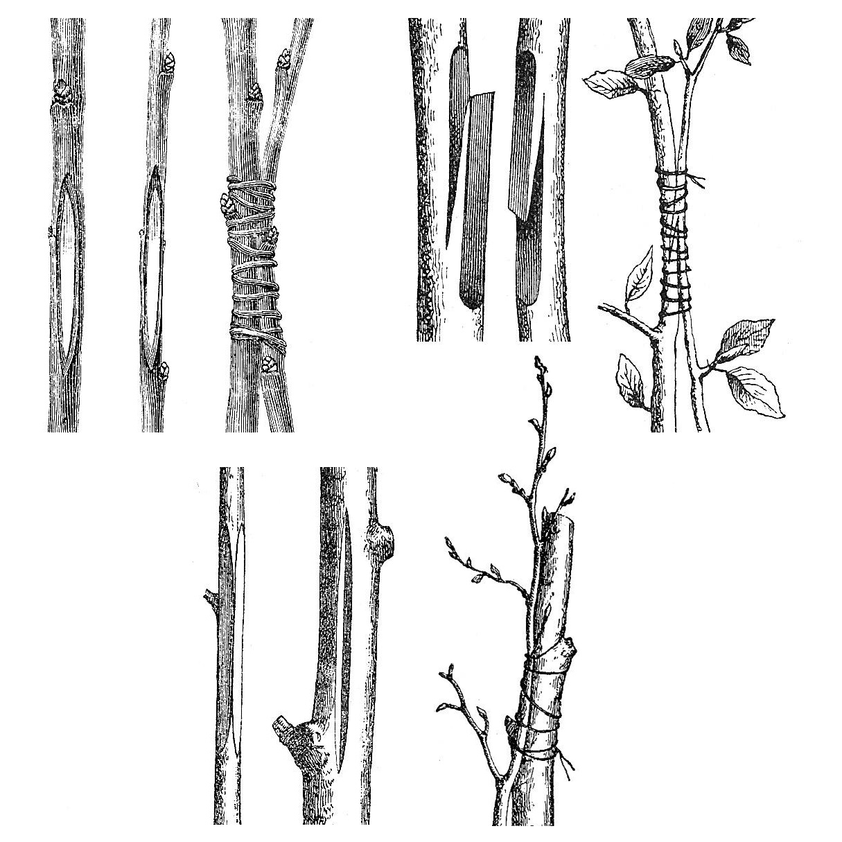 Types of grafting by approach